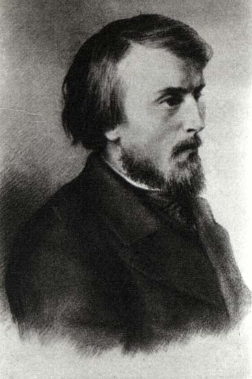 Vissarion Belinsky, Russian literary critic